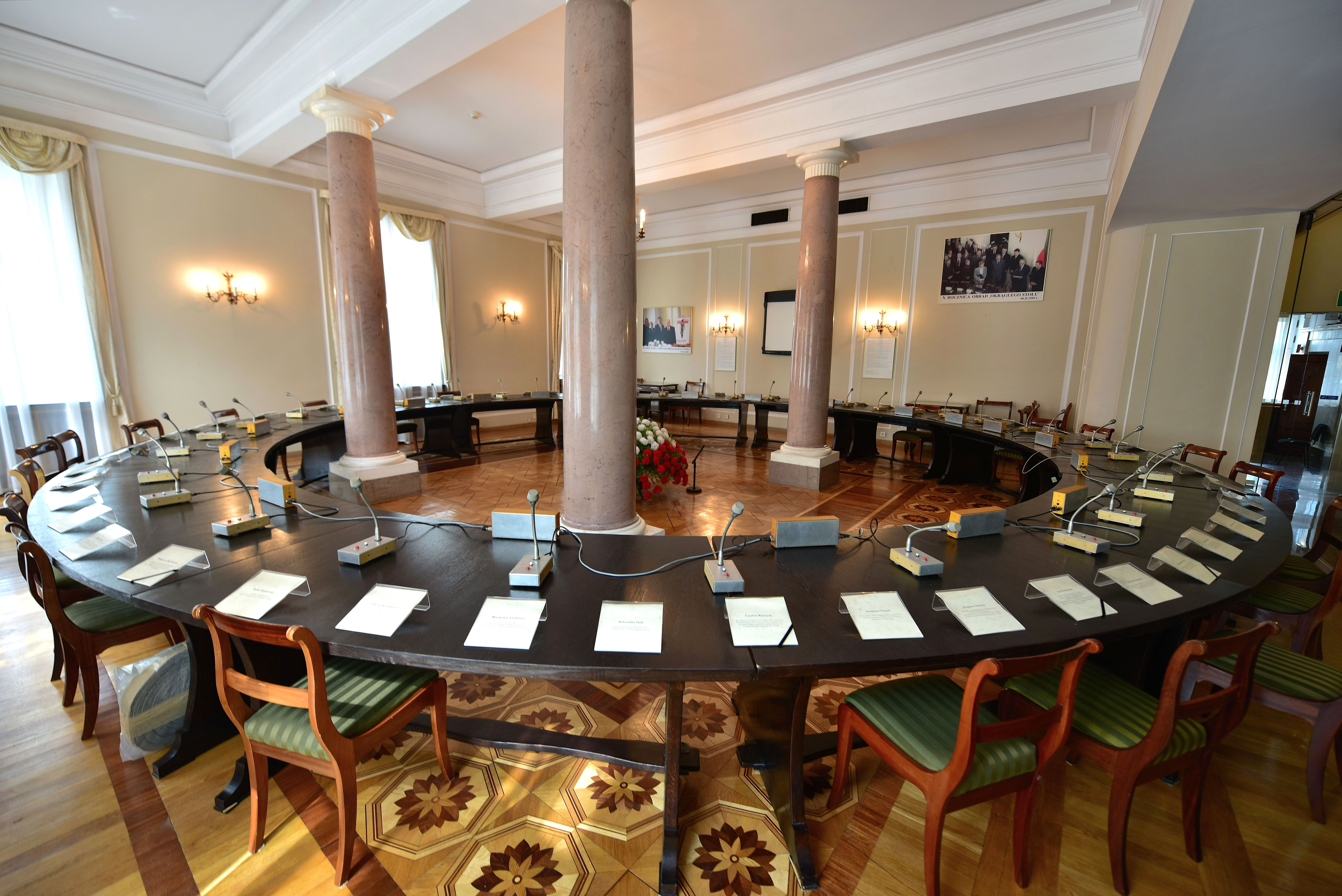 The Round Table displayed in the Round Table Hall at the Presidential Palace in Warsaw